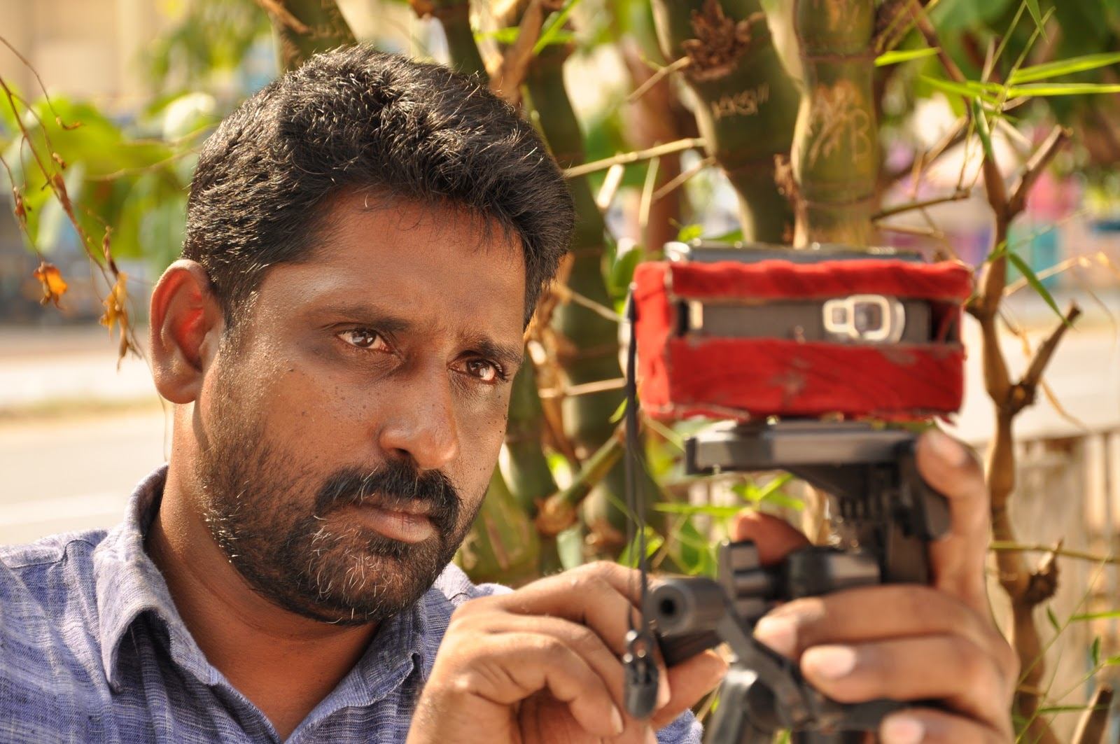 Sathish in shooting of Jalachhayam which is the first mobile phone cinema in world